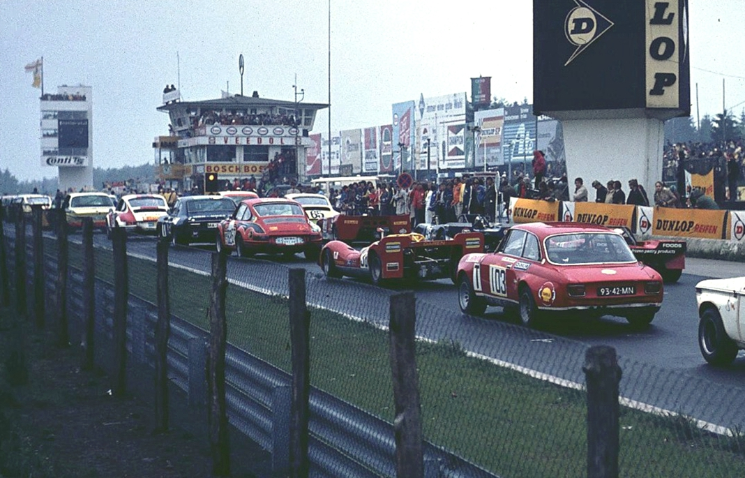 Starting-grid for 1000 km race on Nürburgring 1972